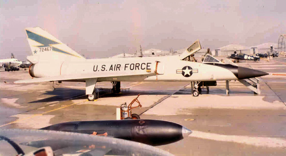 F-106 57-2467 of the USAF 539th Fighter-Interceptor Squadron